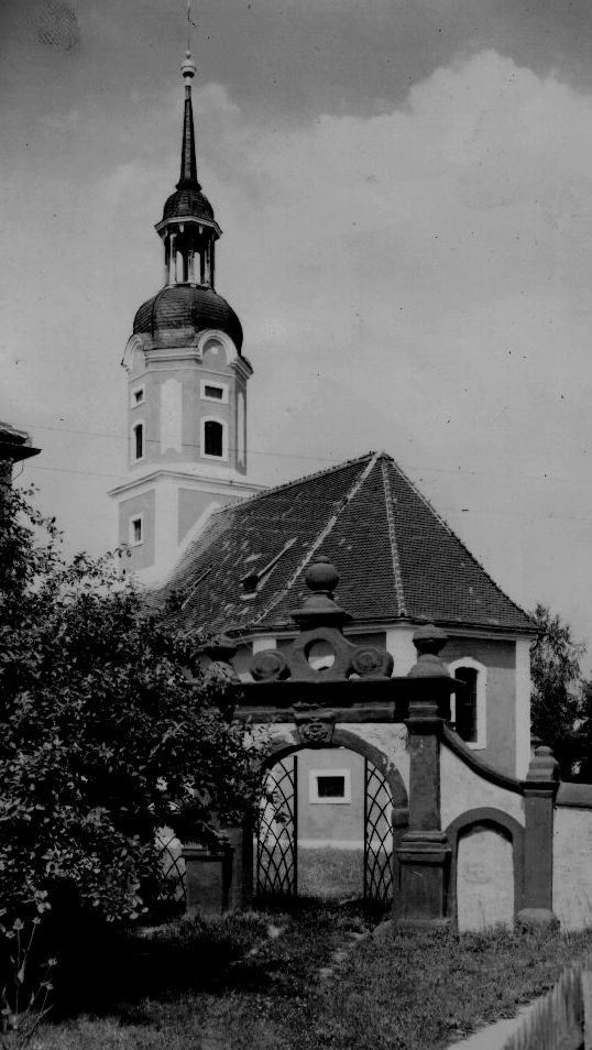 The protestant church of Elbisbach near Borna in Saxony, ca. 1982.